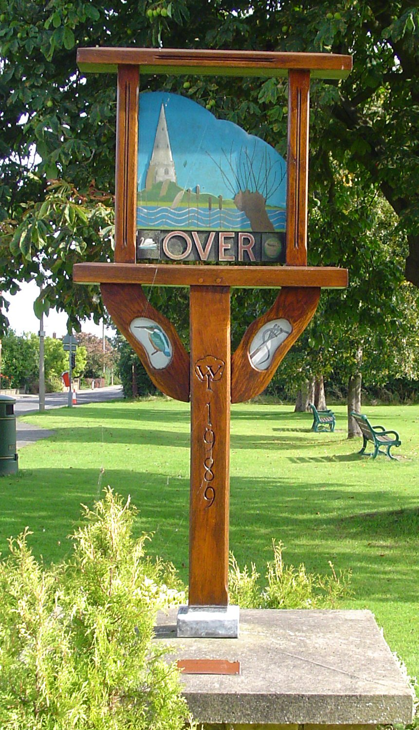 Signpost in Over, Cambridgeshire